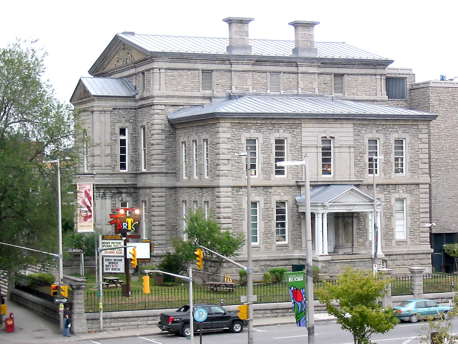 The Ottawa Arts Court. Formerly the Carleton County Courthouse, the building now serves as Ottawa's municipal arts centre.